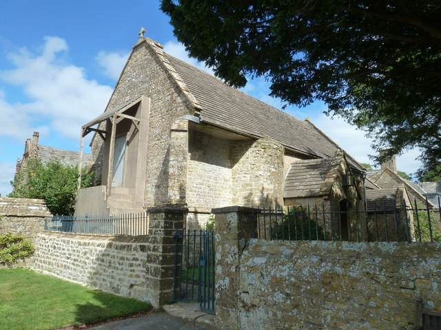 All Saints, Mapperton: September 2013